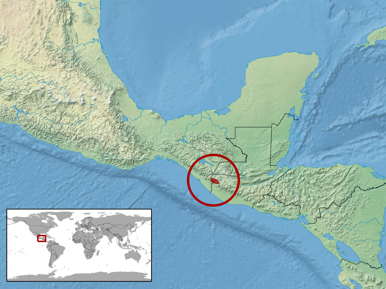 geographic distribution of Abronia matudai (Native: Guatemala; Mexico)